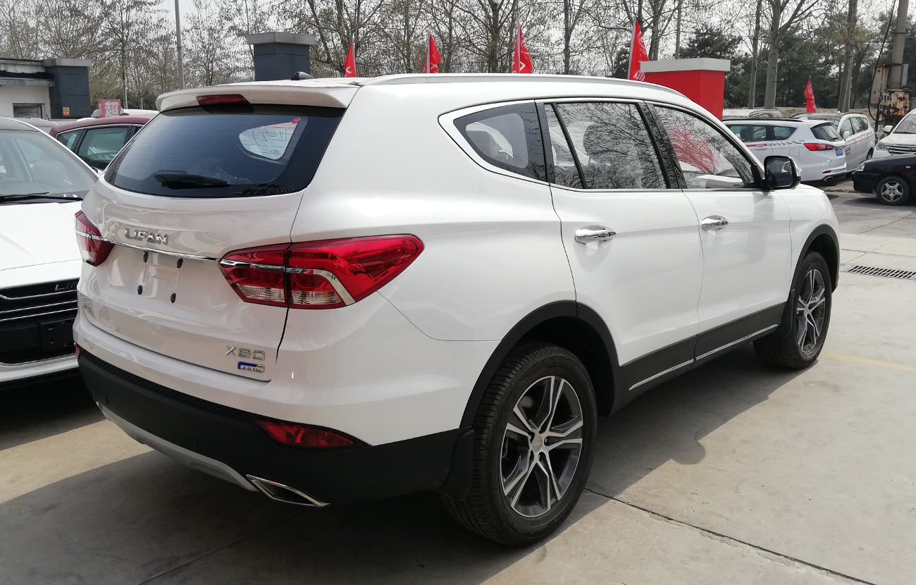 Lifan X80 photographed in Beijing, China.